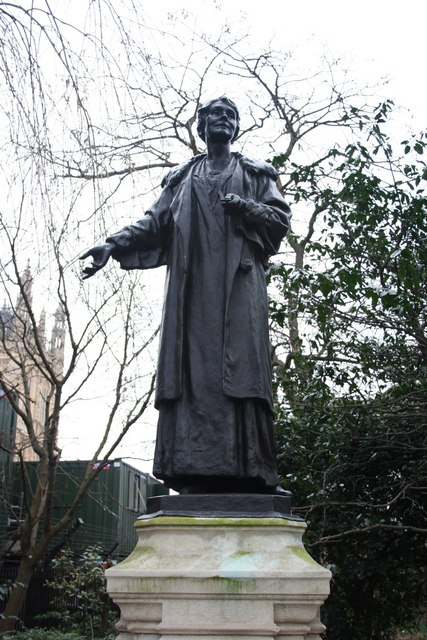 Emmeline Pankhurst Emmeline Pankhurst 1858 – 1928, with the inscription ..... This statue of Emmeline Pankhurst was erected as a tribute to her courageous leadership of the movement for the enfranchisement of women